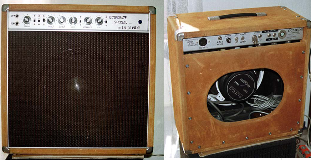 Dumble Overdrive Special 50W Combo with 12" Speaker